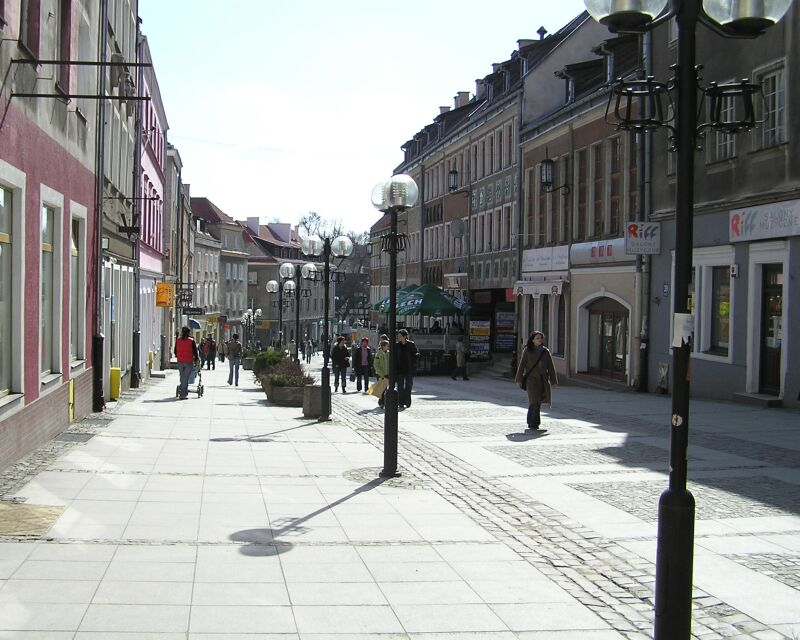 Prosta Street in Olsztyn, Poland